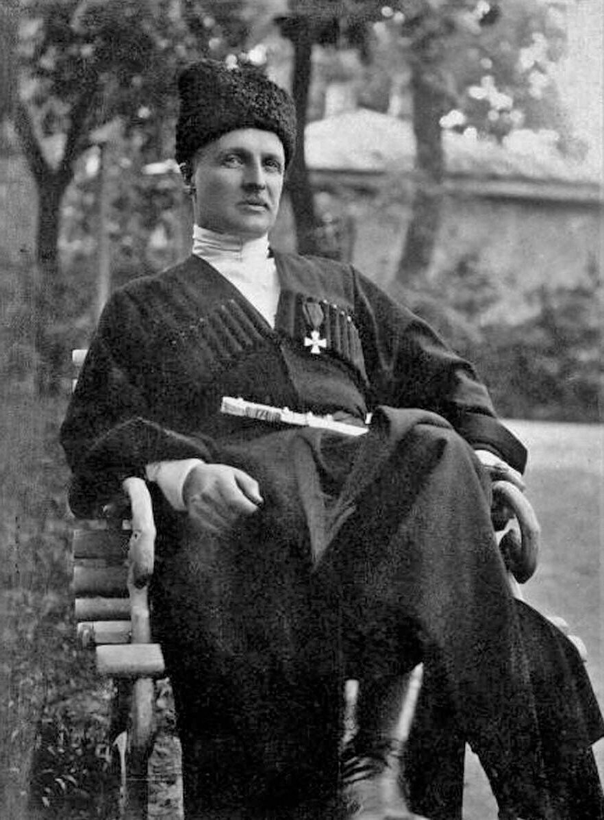 Pavlo Skoropadsky